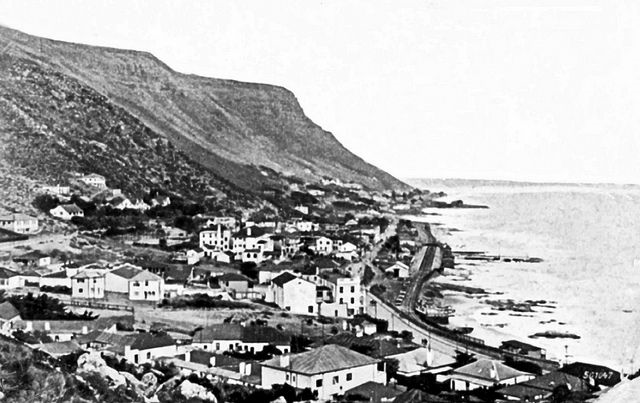 Kalk Bay, Western Cape, South Africa during around 1905.